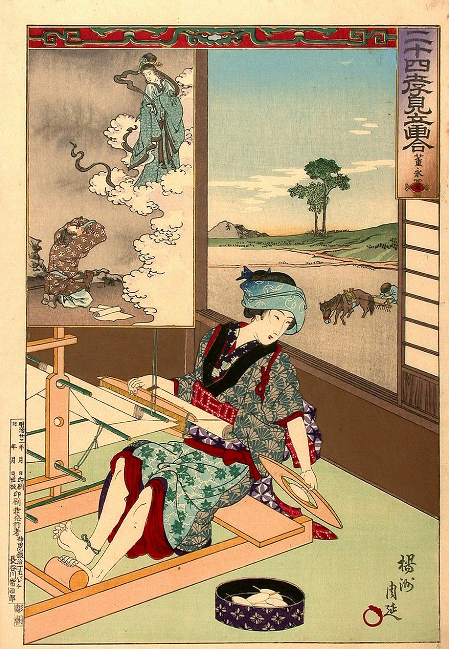 Tōei from the series Nijūshi kō mitate e awase depicts a woman weaving